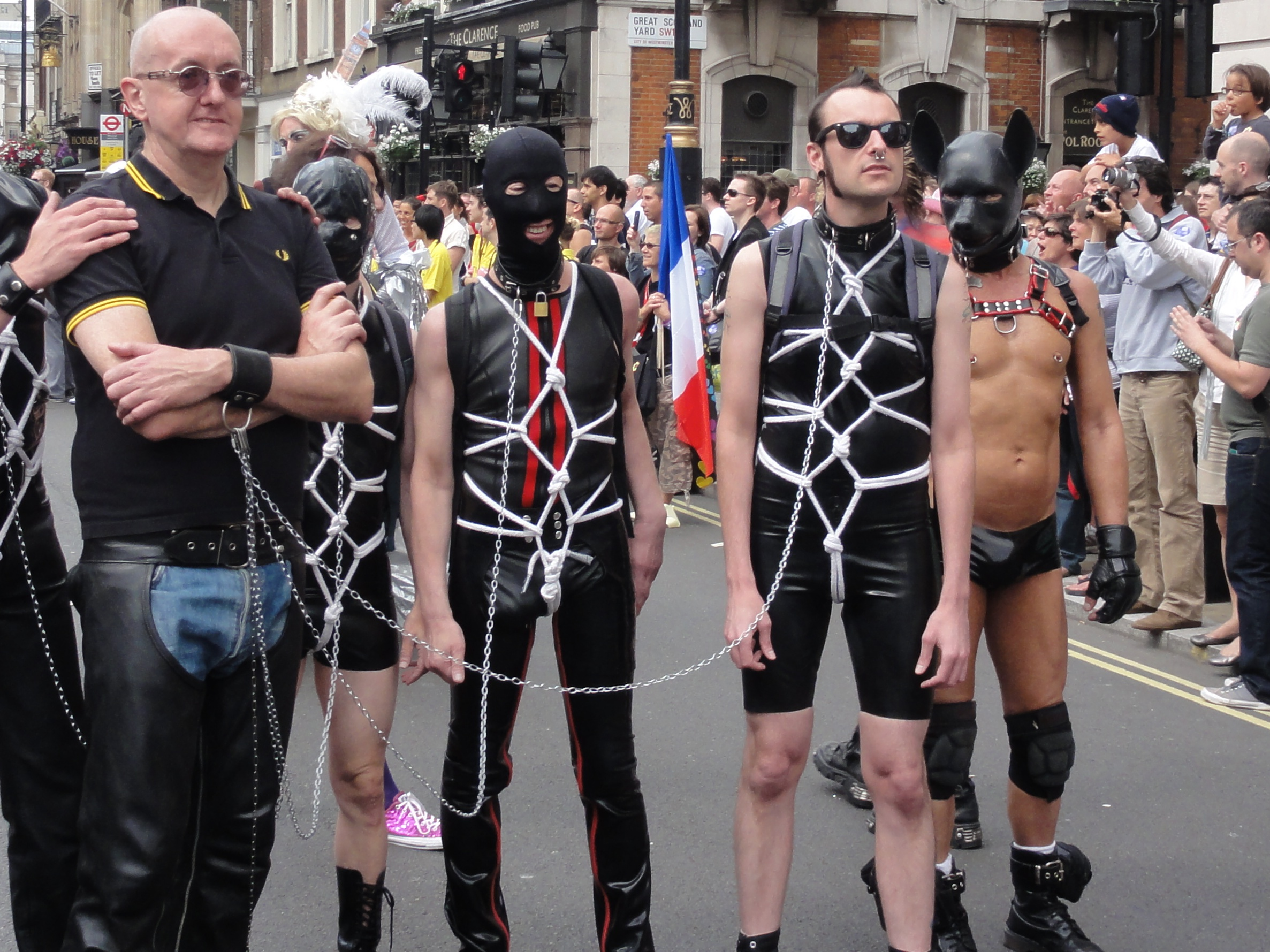 Fetishists marching (or being led by the chain!) down Whitehall as part of Pride London 2011.